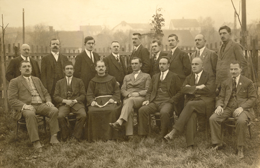 Napredak Palace Construction Board in 1911 Image taken in Sarajevo, Bosnia and Hercegovina